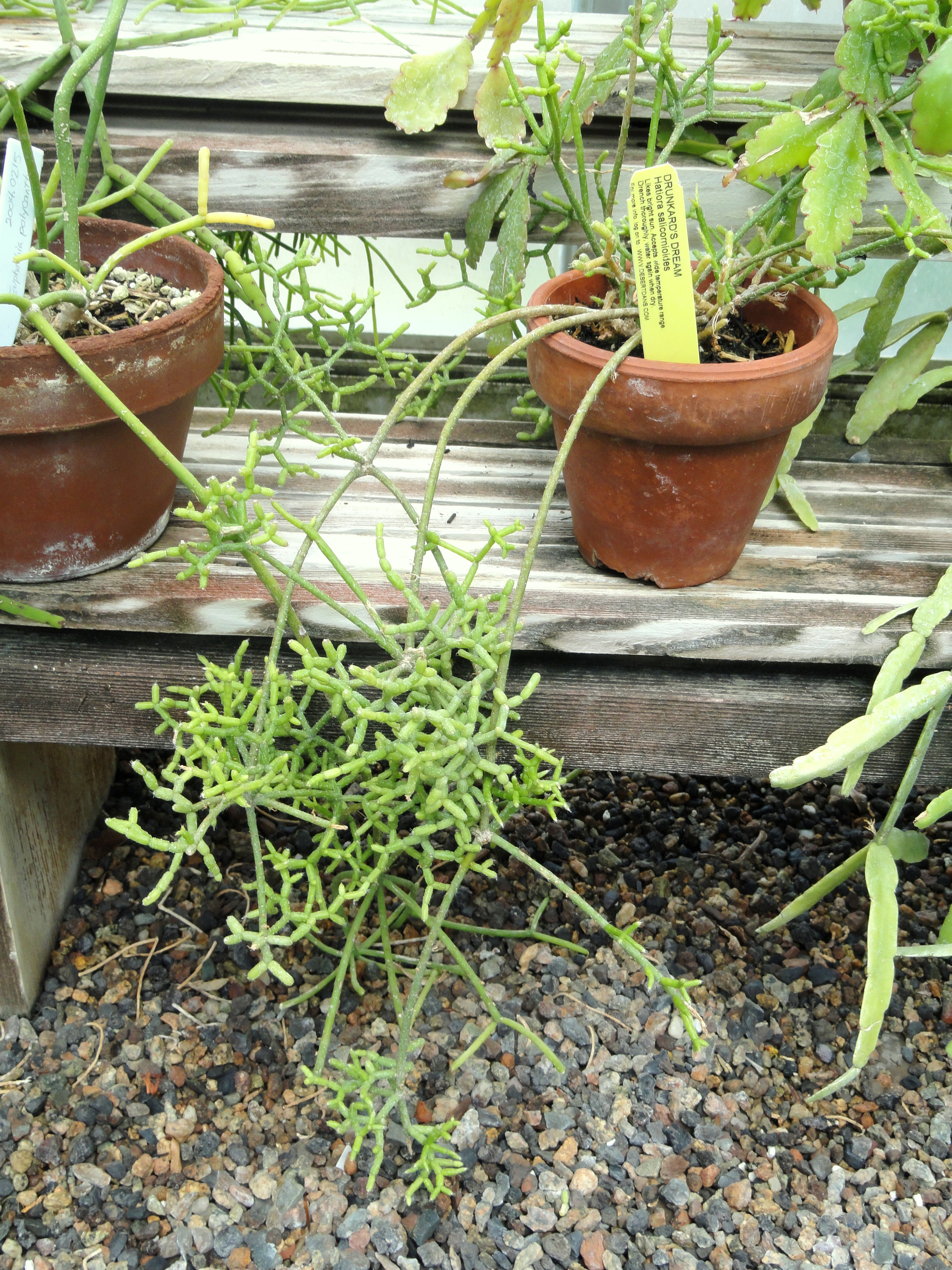 Botanical specimen in the Margaret C. Ferguson Greenhouses, Wellesley College Botanic Gardens, Wellesley College, Wellesley, Massachusetts, USA.